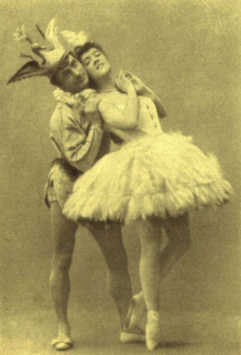 Varava Nikitina as Princess Florine and Enrico Cecchetti as the Bluebird in the Bluebird pas de deux from Act III of the Petipa/Tchaikovsky ballet "The Sleeping Beauty".